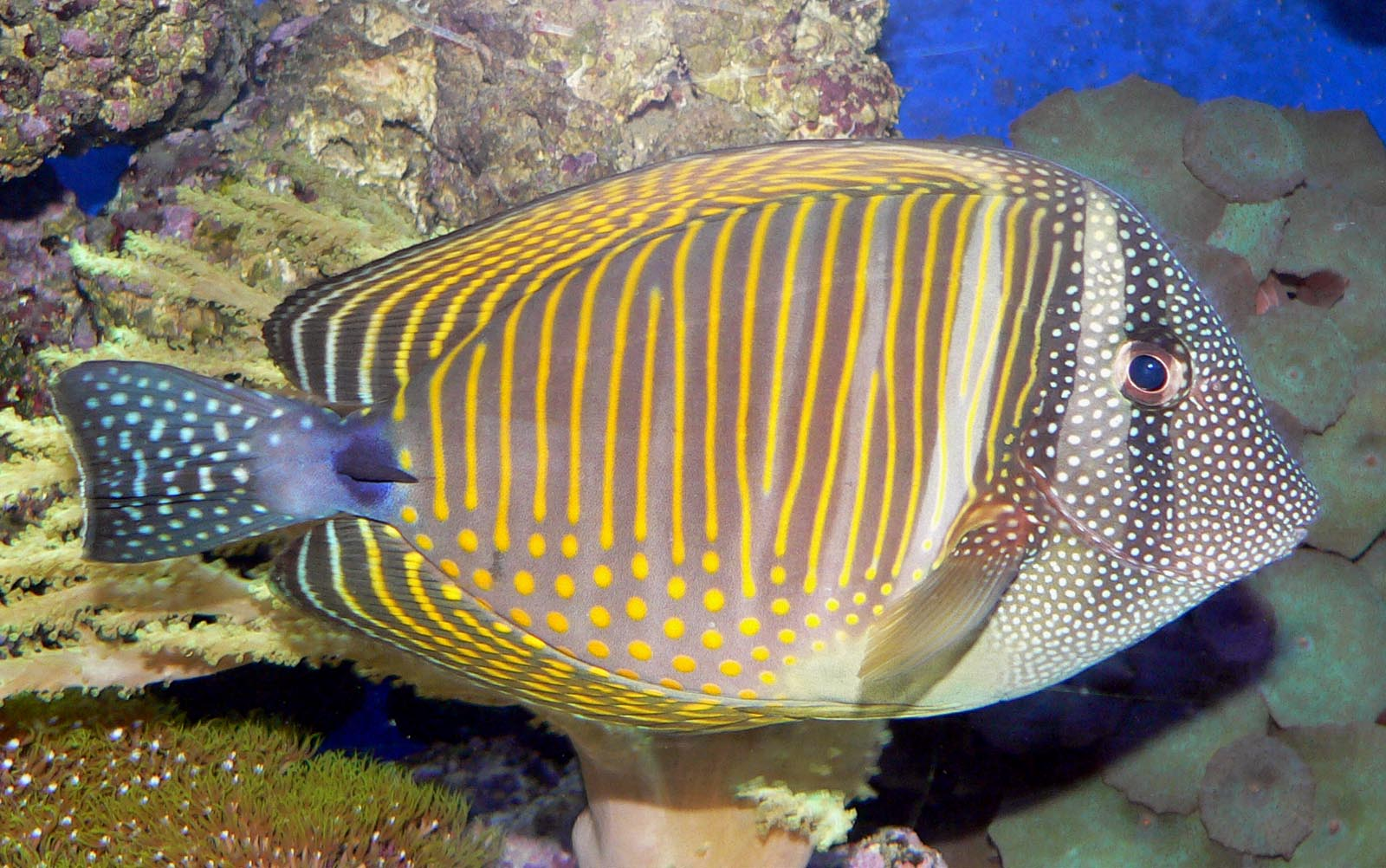 Photo of Zebrasoma desjardinii at the Steinhart Aquarium in San Francisco